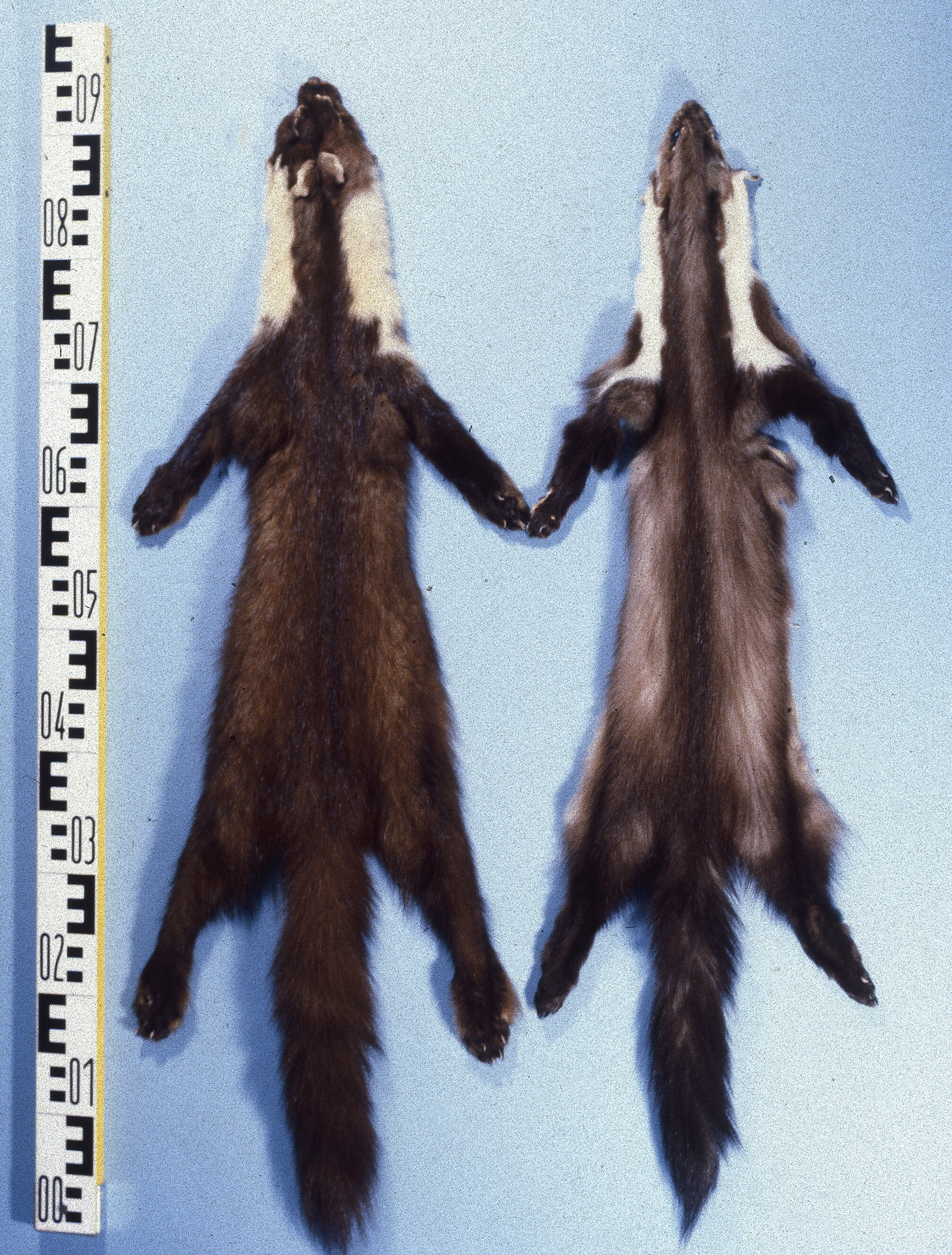 Pine marten (Martes martes) & Beach marten fur skins (Martes foina). Fur skin collection, Bundes-Pelzfachschule, Frankfurt/Main, Germany